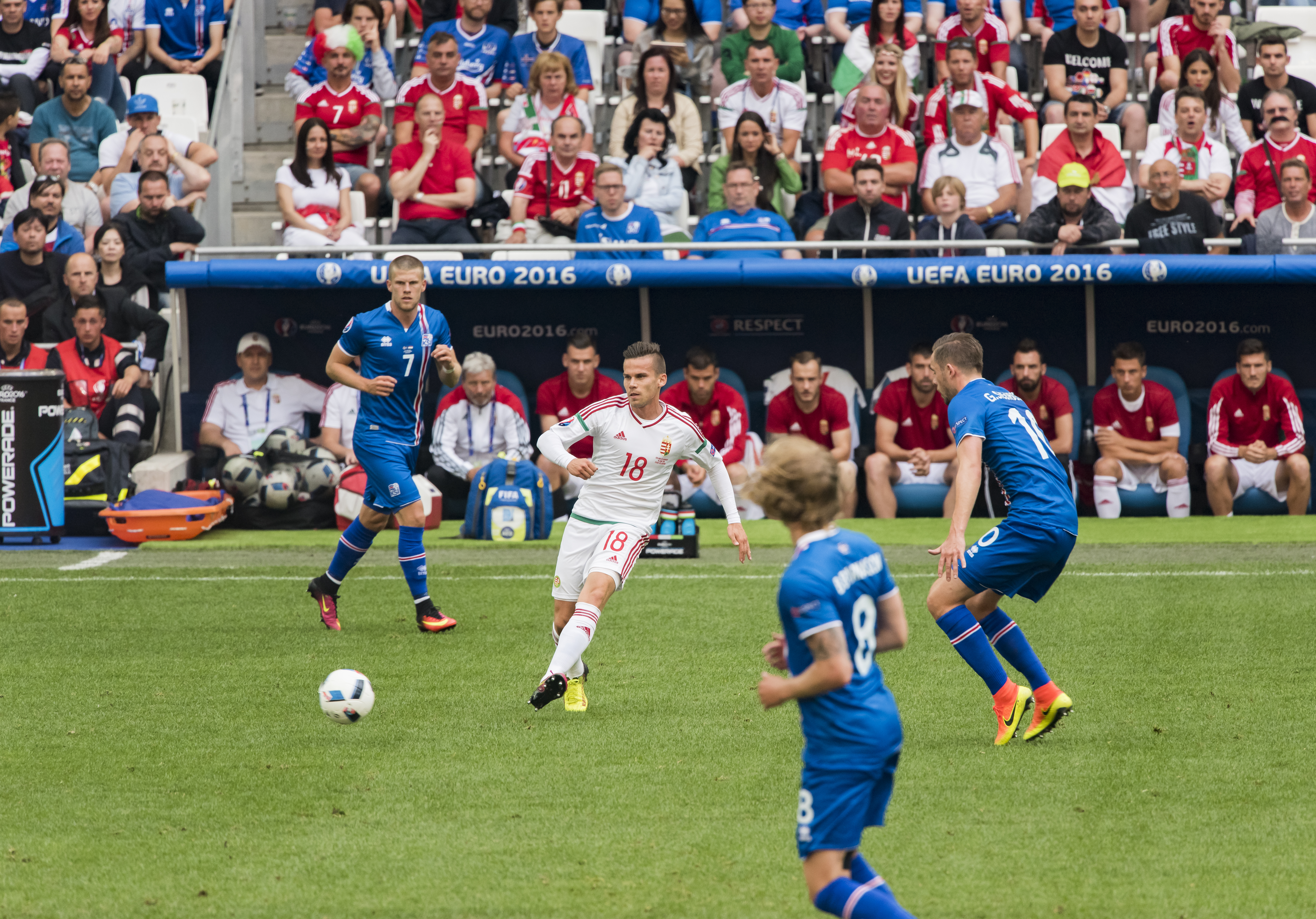 Zoltán Stieber playing for Hungary against Iceland at UEFA Euro 2016